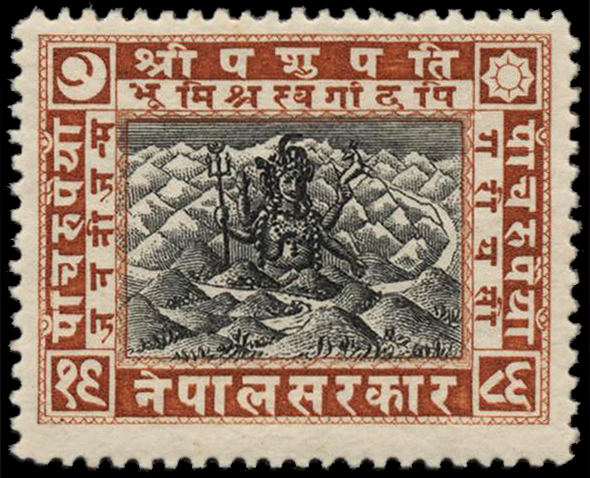 Postage stamp of Nepal, Shiva Mahadeva, 1929, 5 rupees, scott#37